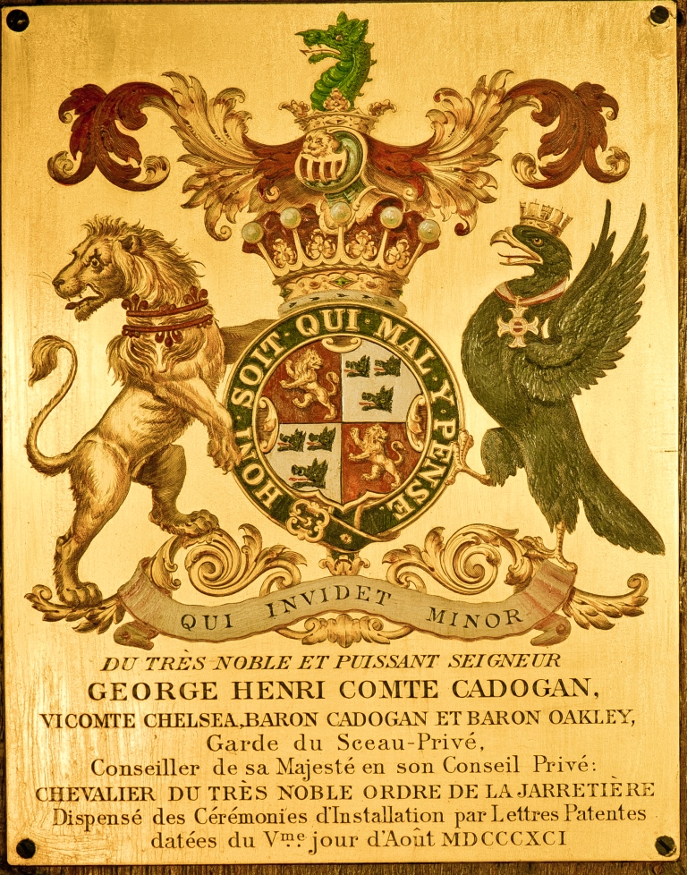 Garter stall plate of George Cadogan, 5th Earl Cadogan (1840-1915), nominated a Knight of the Garter 1891. St George's Chapel, Windsor Castle